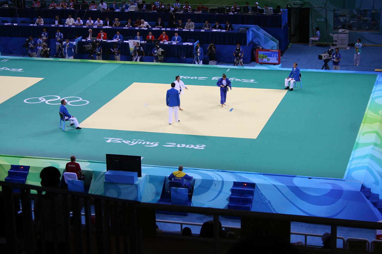 Beijing 2008 Olympics, Beijing Science and Technology University Gymnasium. During match between Lusnikova and Chahnez M'barki